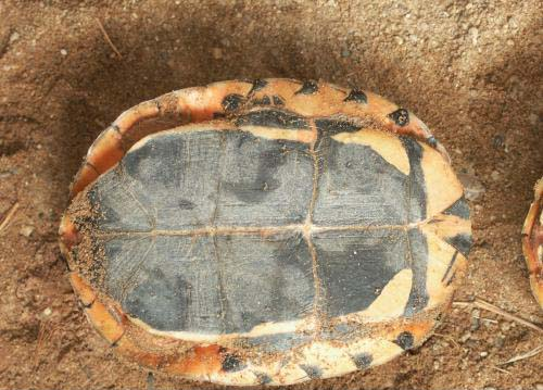 Cuora cyclornata cyclornata female, plastral view, by Torsten Blanck.